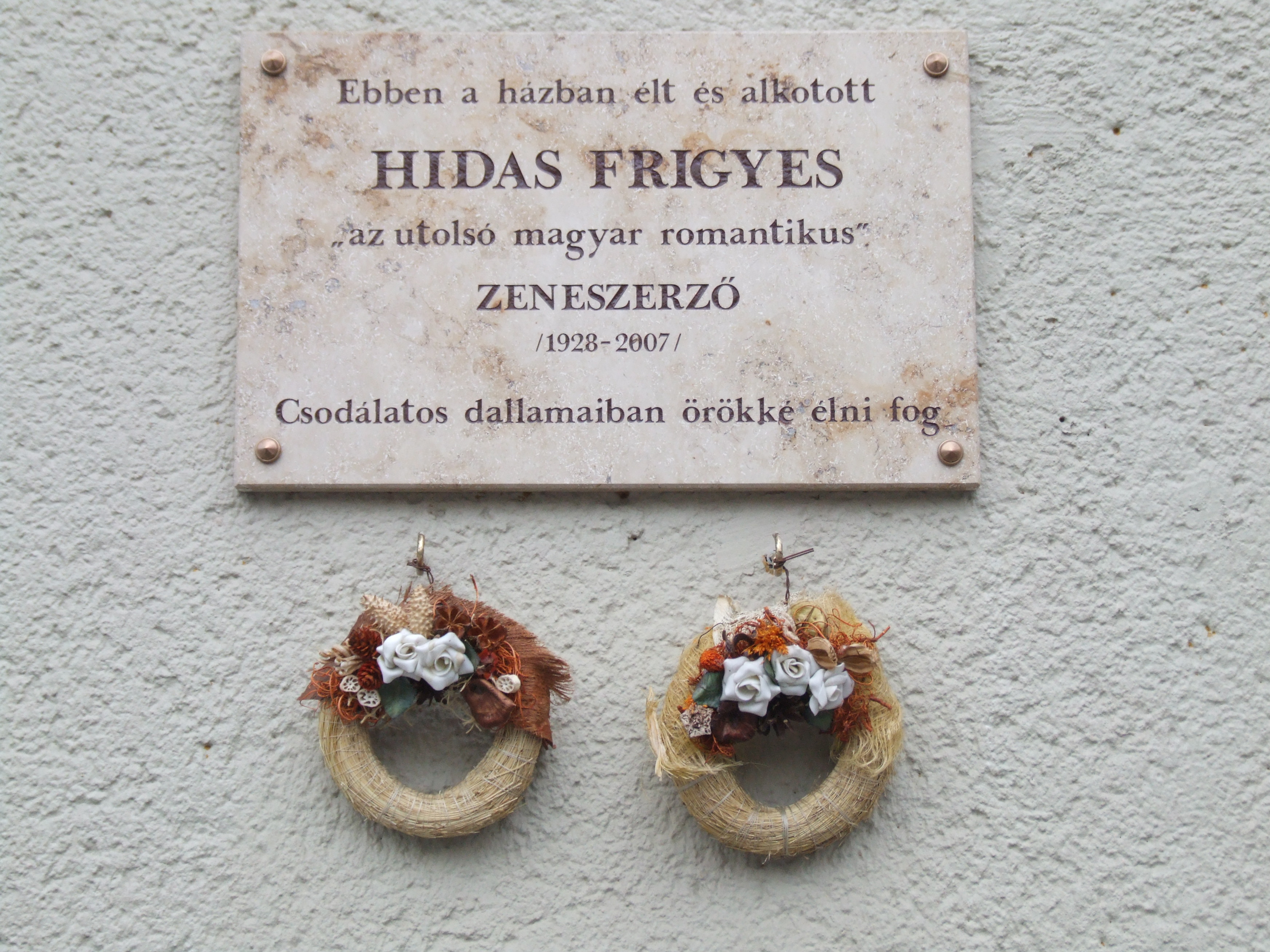 Commemorative plaque of Frigyes Hidas in Budapest District I, Attila Street No 133